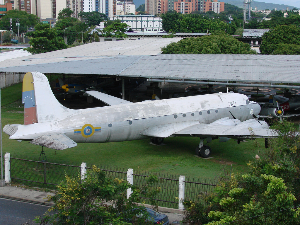 Este es el avión que lleva el apelativo histórico La Vaca Sagrada. Maracay. Estado Aragua. Venezuela.